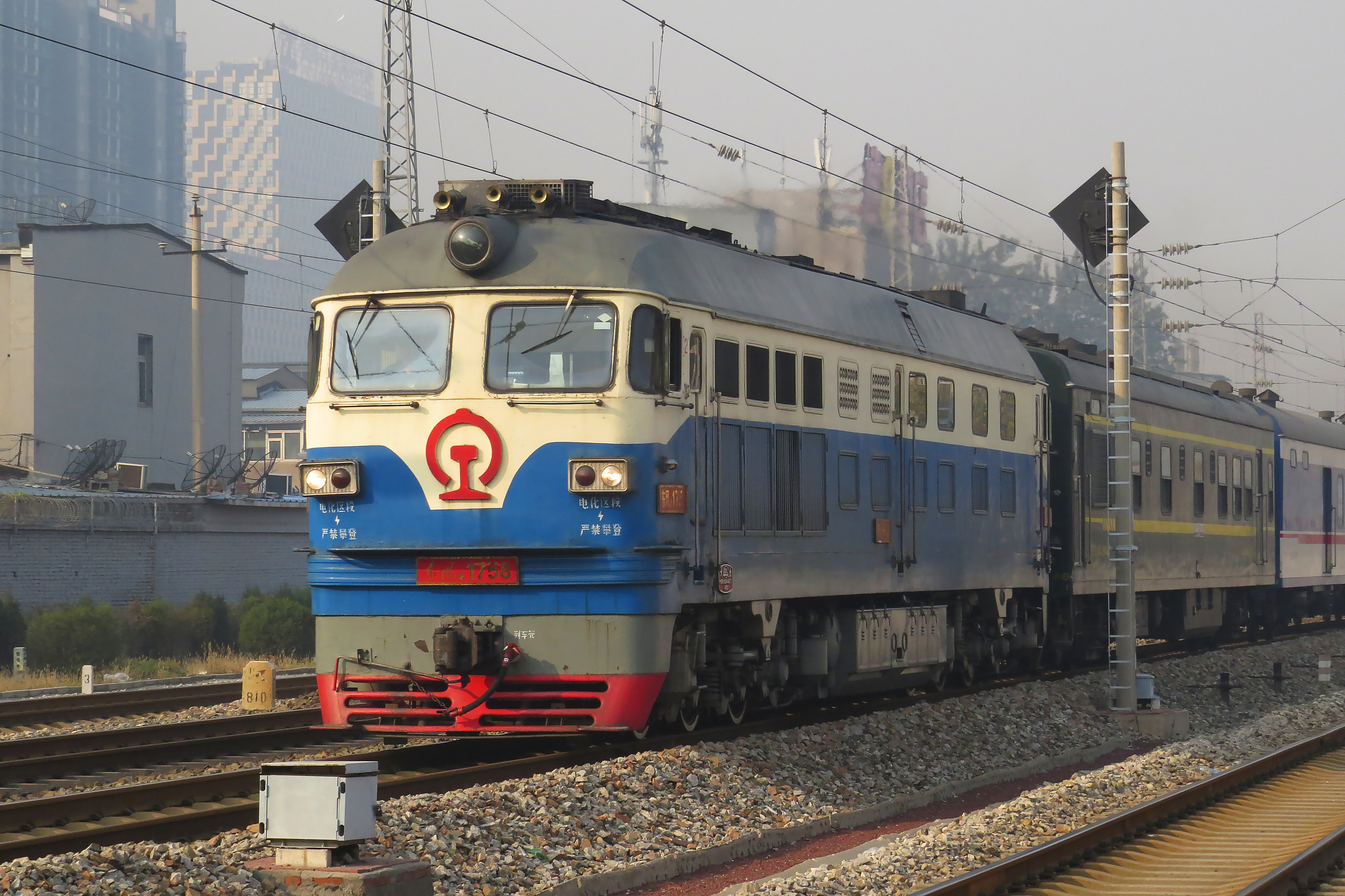 Hauling 0T17 (empty carriages of T18) to somewhere east. DF4BD is a strange creature - when a DF4B's diesel engine changed from 16V240ZJB to 16V240ZJD (like DF4D).